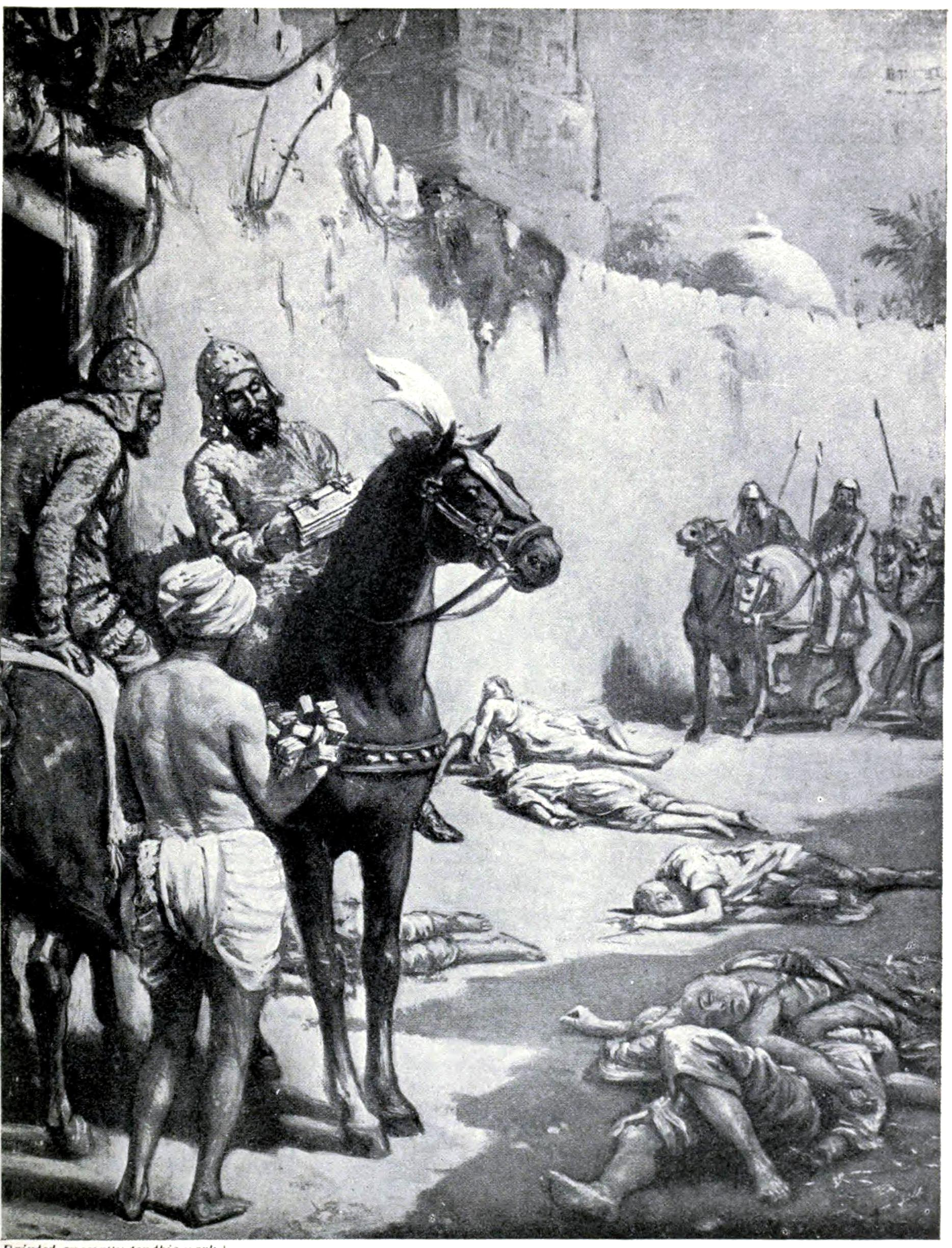 The end of Buddhist Monks, A.D. 1193. From The End of the Buddhist Monks, A.D. 1193. From page 168 of Hutchinson's story of the nations, containing the Egyptians, the Chinese, India, the Babylonian nation, the Hittites, the Assyrians, the Phoenicians and the Carthaginians, the Phrygians, the Lydians, and other nations of Asia Minor.